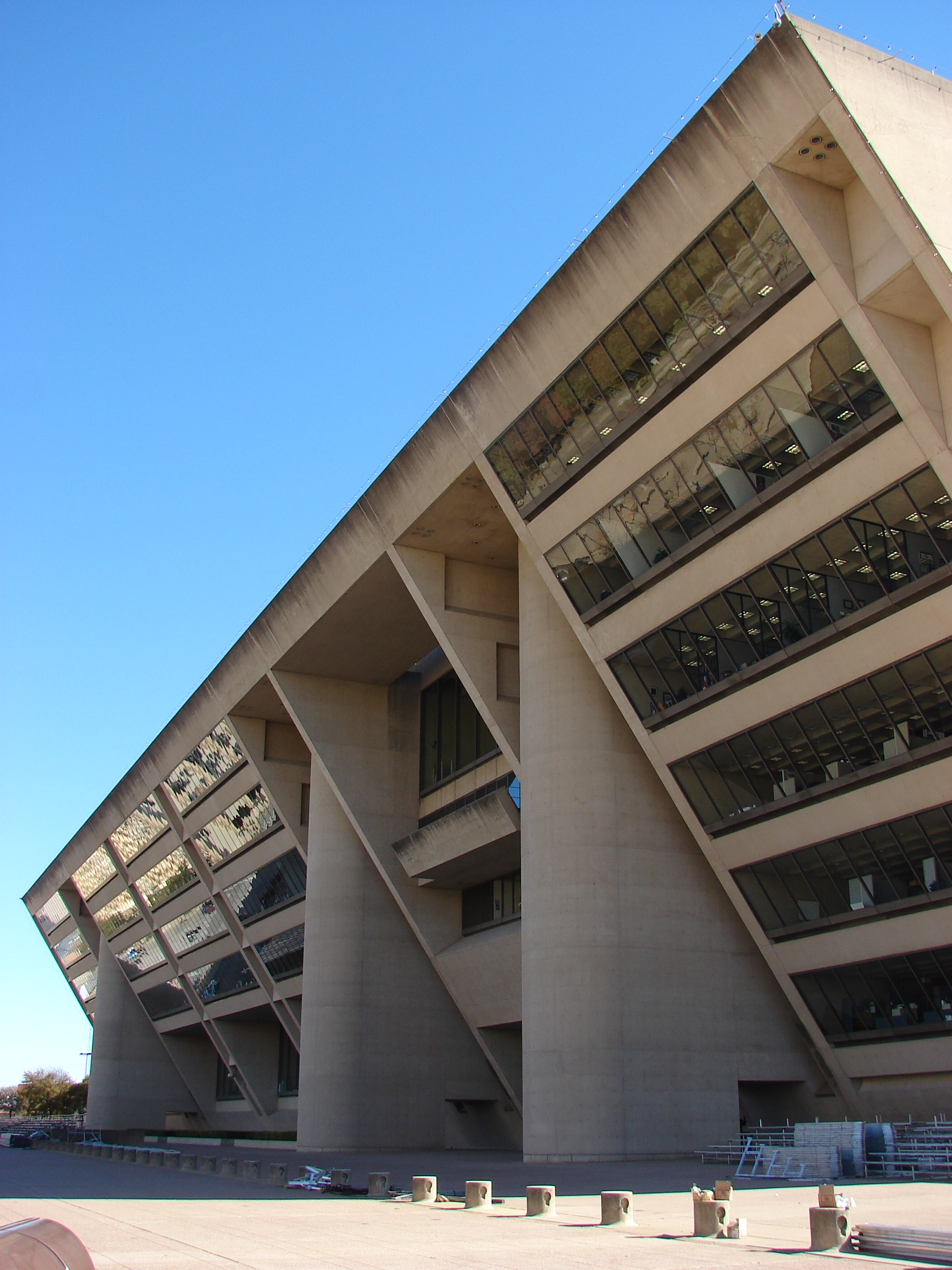 Dallas City Hall, front (north) exterior.